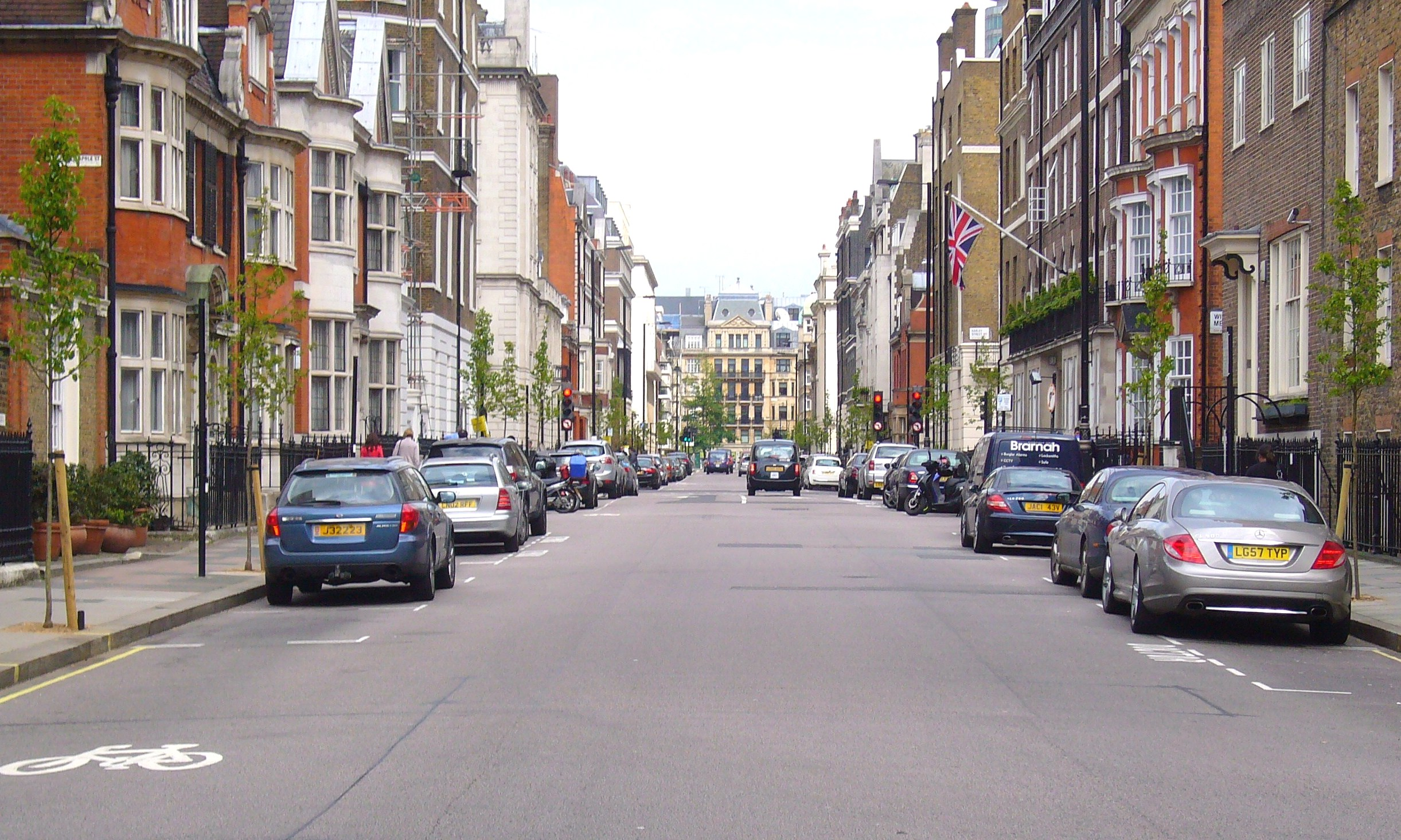 Photograph looking east down Weymouth Street in Marylebone